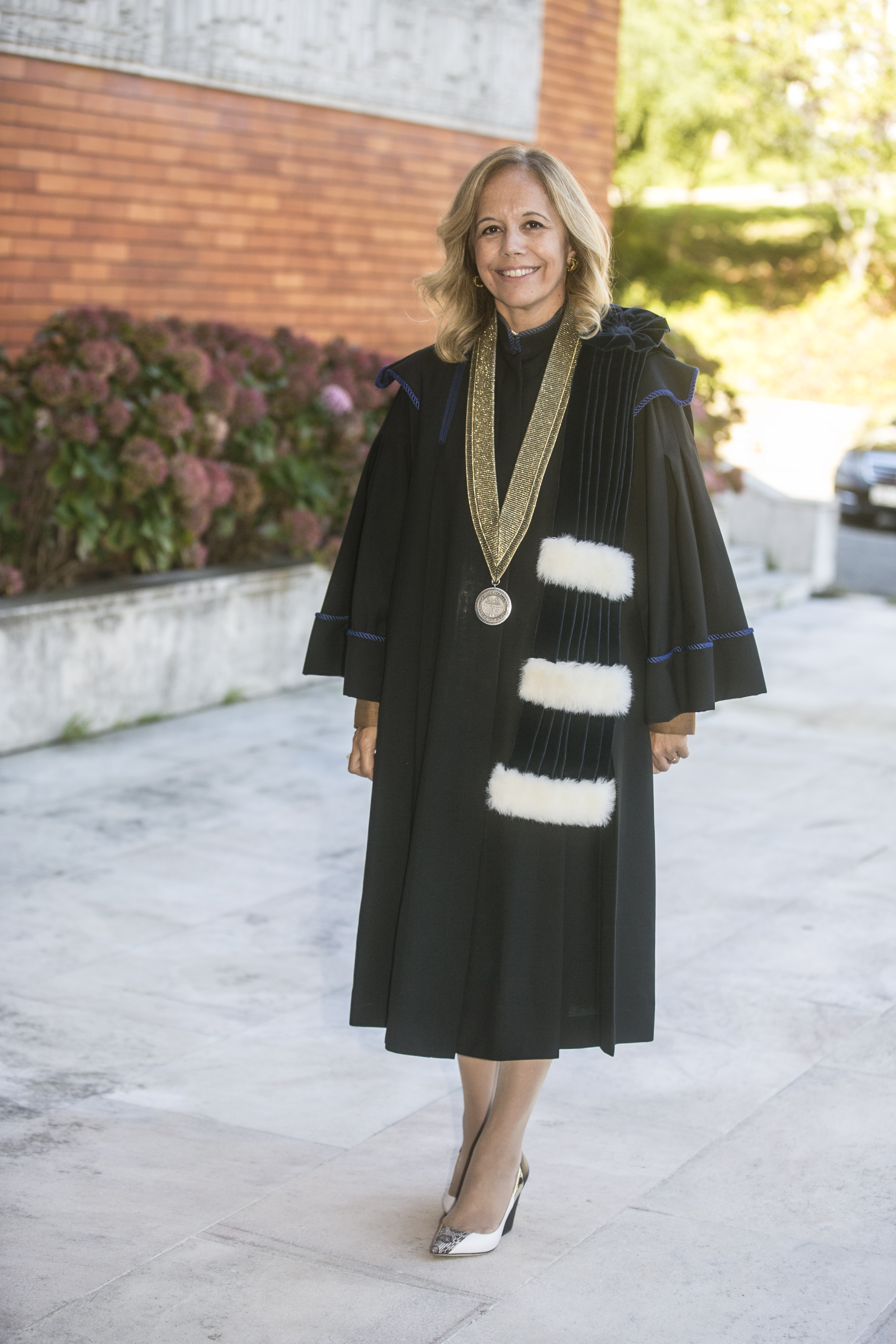 Professor Isabel Capeloa Gil